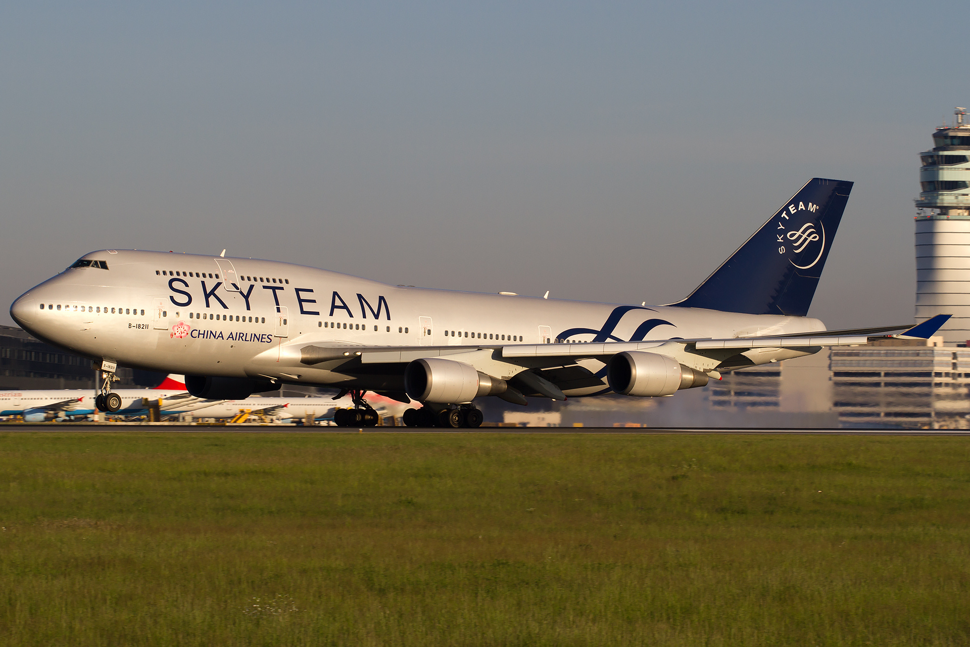 China Airlines Boeing 747-400 touches down at Vienna Airport